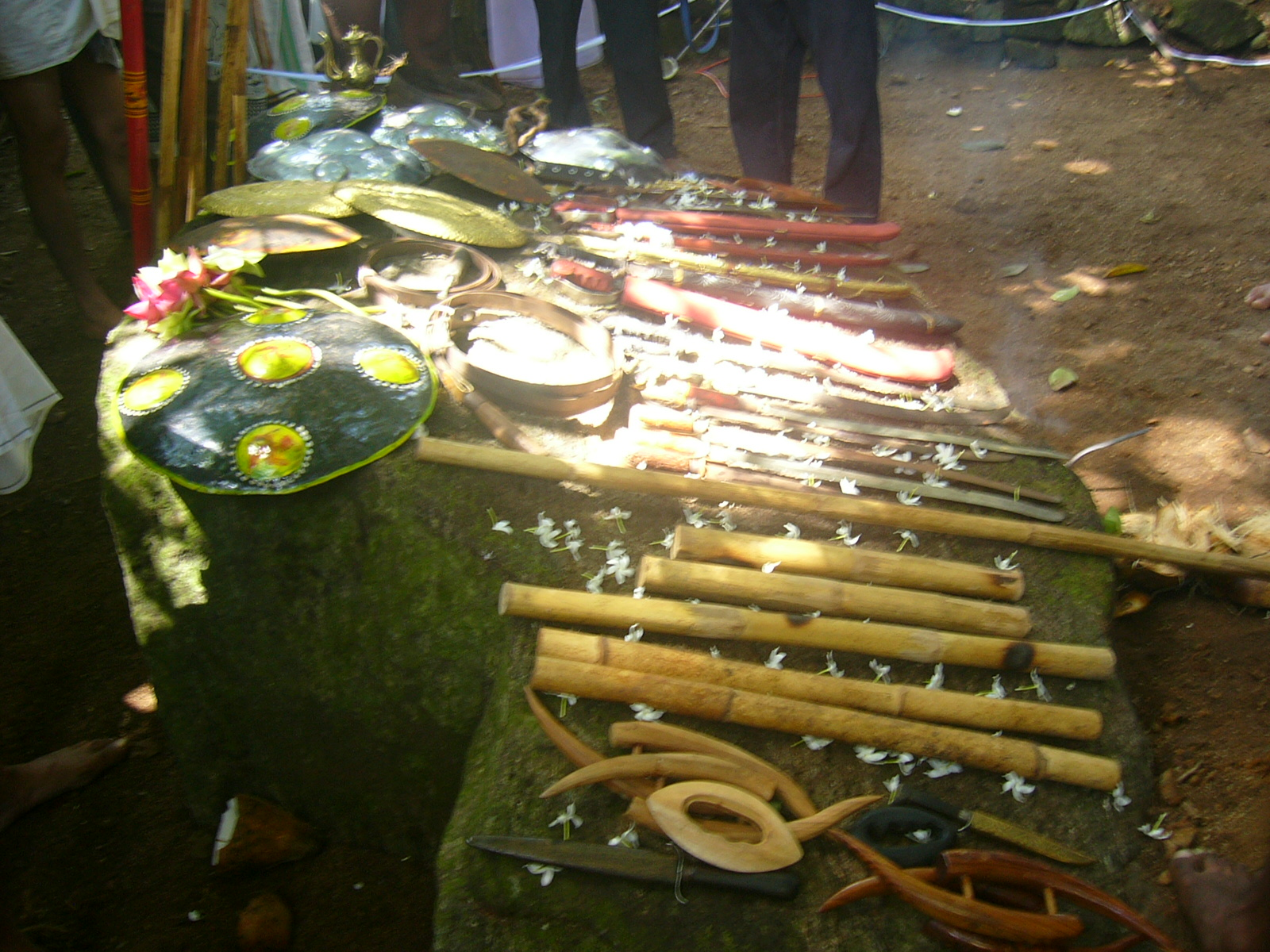 The weapons used in Angampora fighting art සිංහල: අංගංපොර නොහොත් අංගම්පොර සටනේ භාවිතා වන ආයුධ